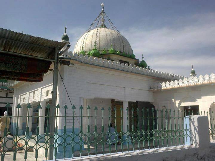 Shrine of Chakori Sharif.